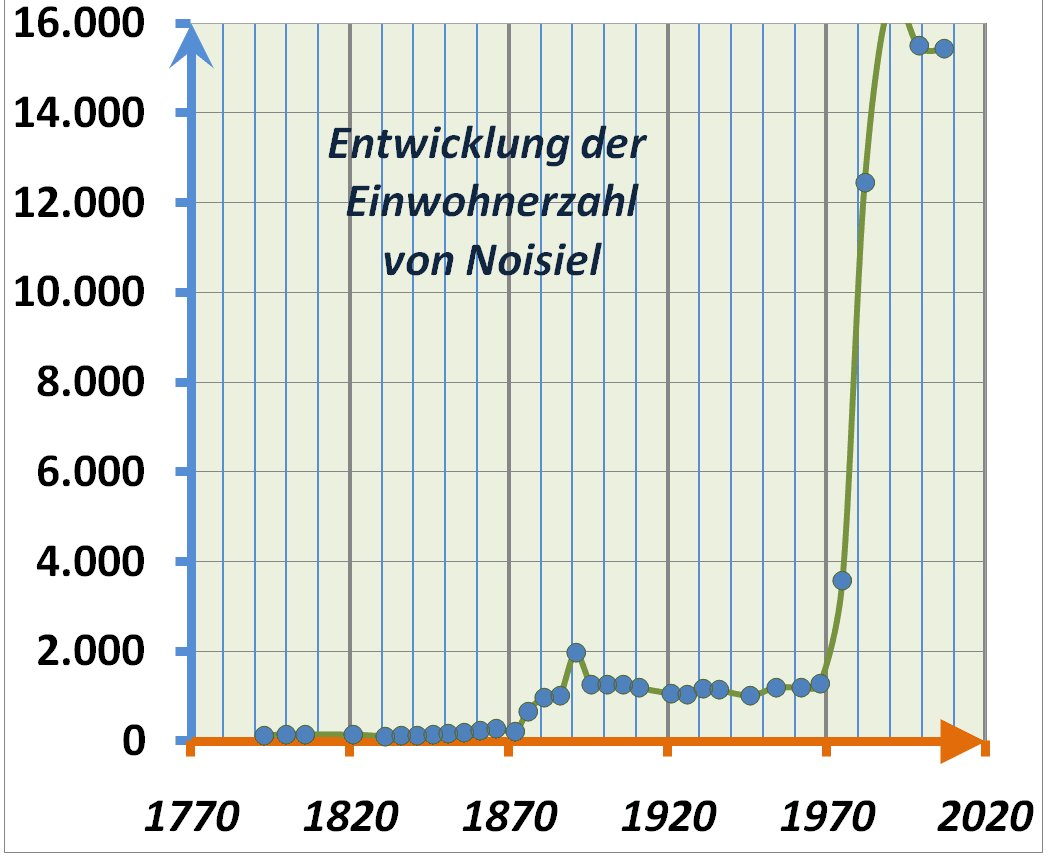 The Population of Noisiel in France between 1770 an 2007.